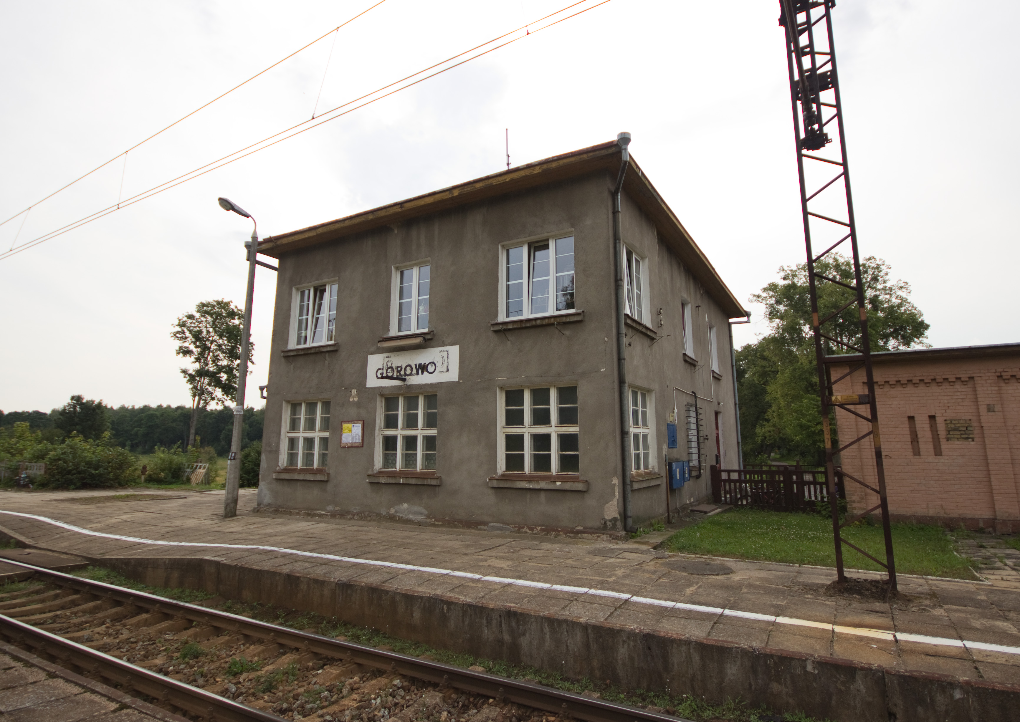 Train station, Górowo, gmina Kolno, powiat olsztyński, Warmian-Masurian Voivodeship